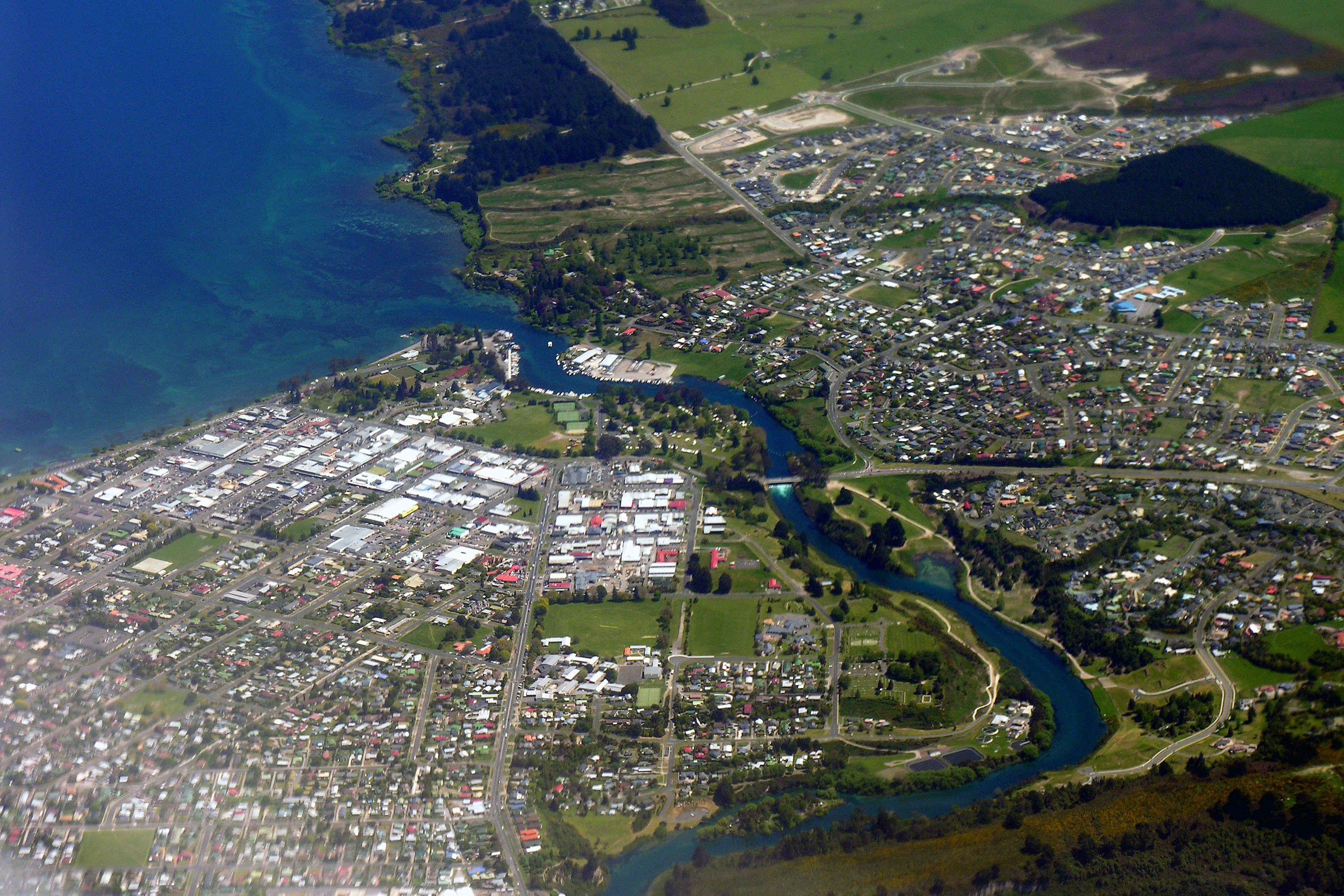 Aerial view. En route Rotorua to Wellington